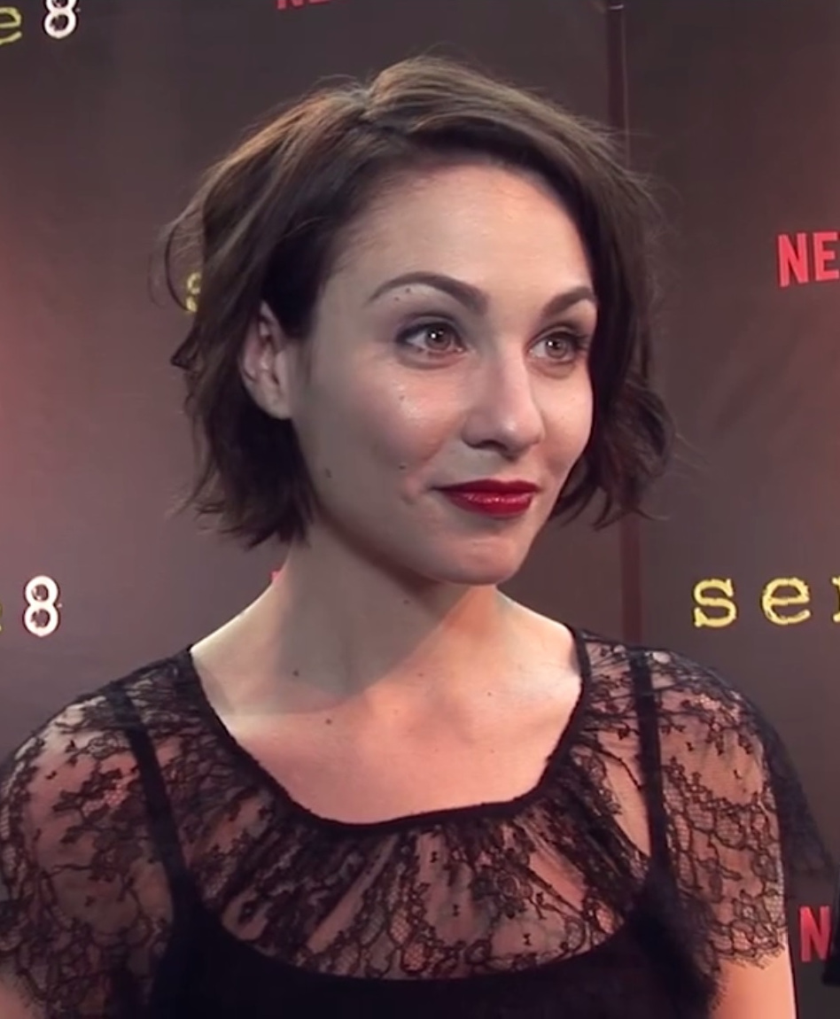 English actress Tuppence Middleton interviewed about her role, Riley, in the Netflix television program Sense8, for Sidewalks by host Veronica Castro in San Francisco.